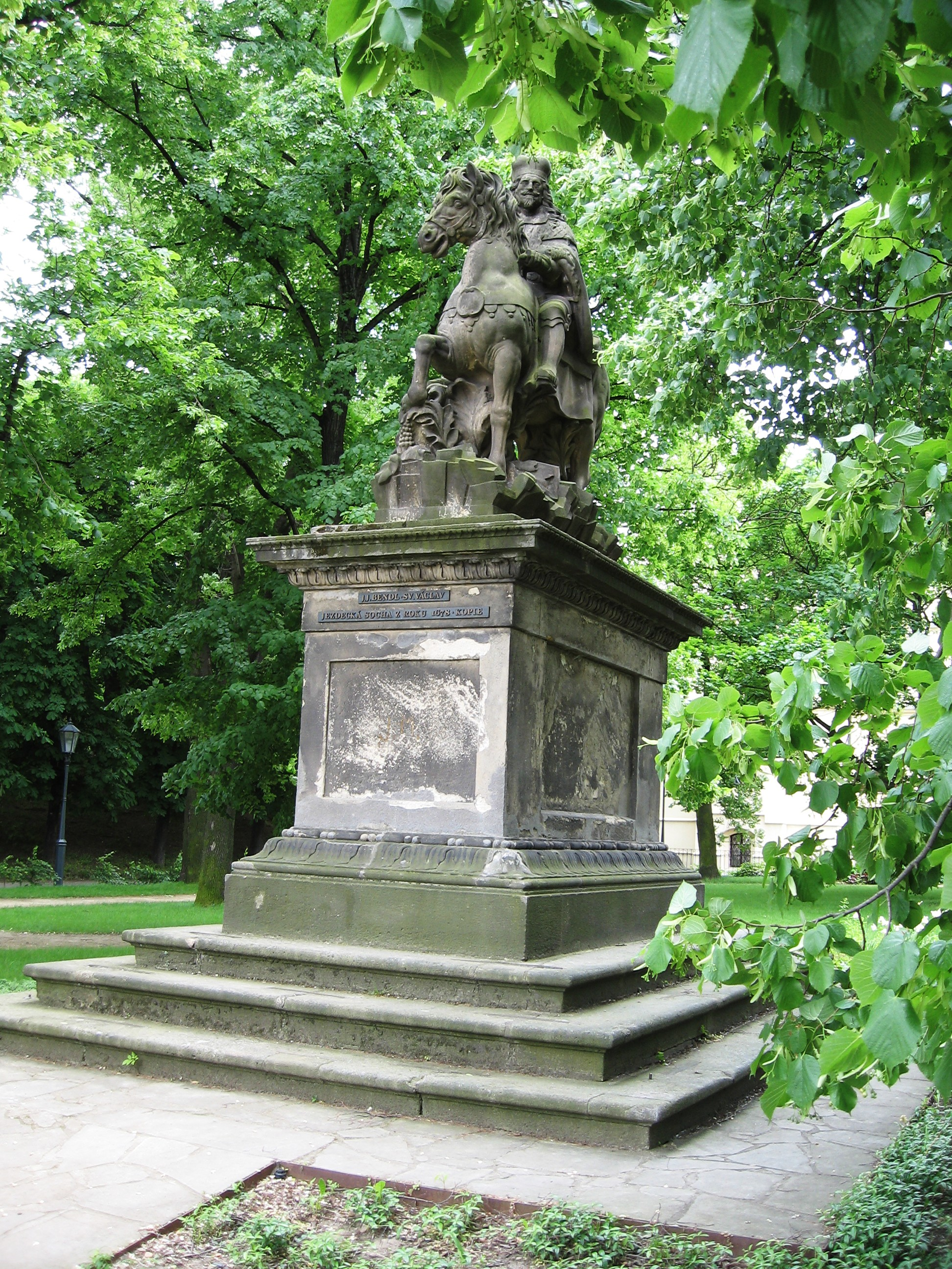 Statue of st. Wenceslaus by J. J. Bendl made in 1678 (copy)